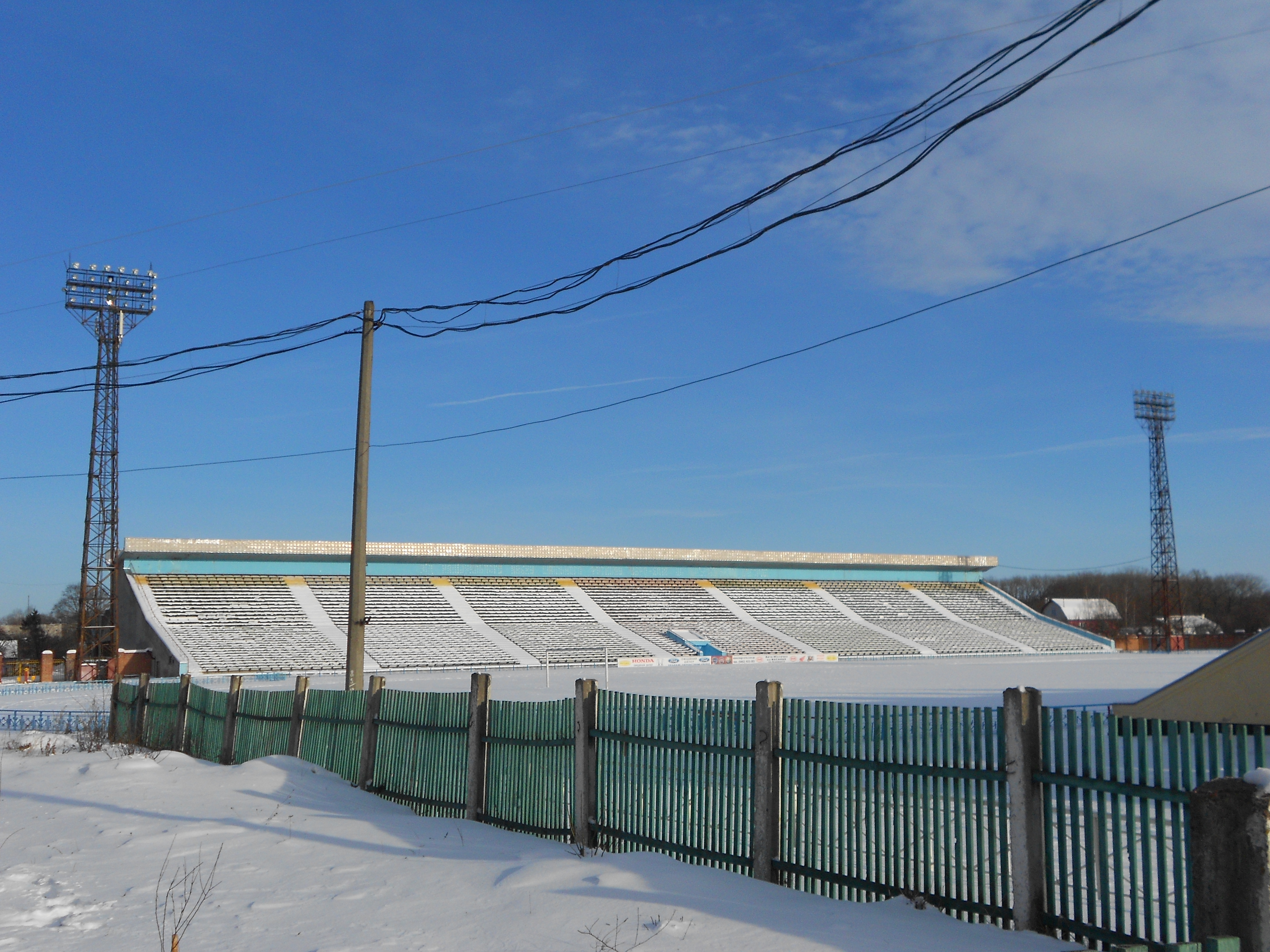 Yuri Gagarin Stadium in Chernihiv, Ukraine